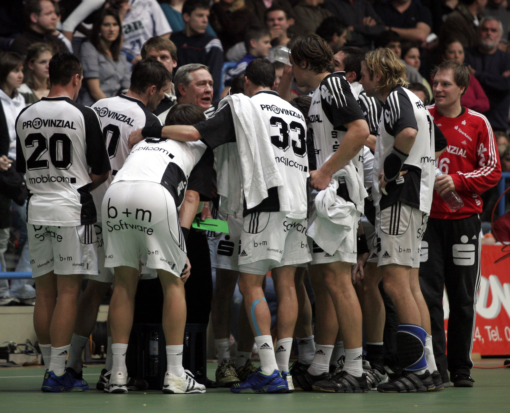 Team Time Out in a handball game. Zvonimir „Noka“ Serdarušić, coach of THW Kiel with the green time-out card, on December 30th 2006 in Aschaffenburg (Germany), during the game TV Grosswallstadt - THW Kiel (25:30)